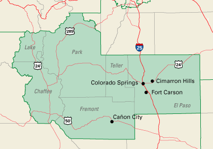 From